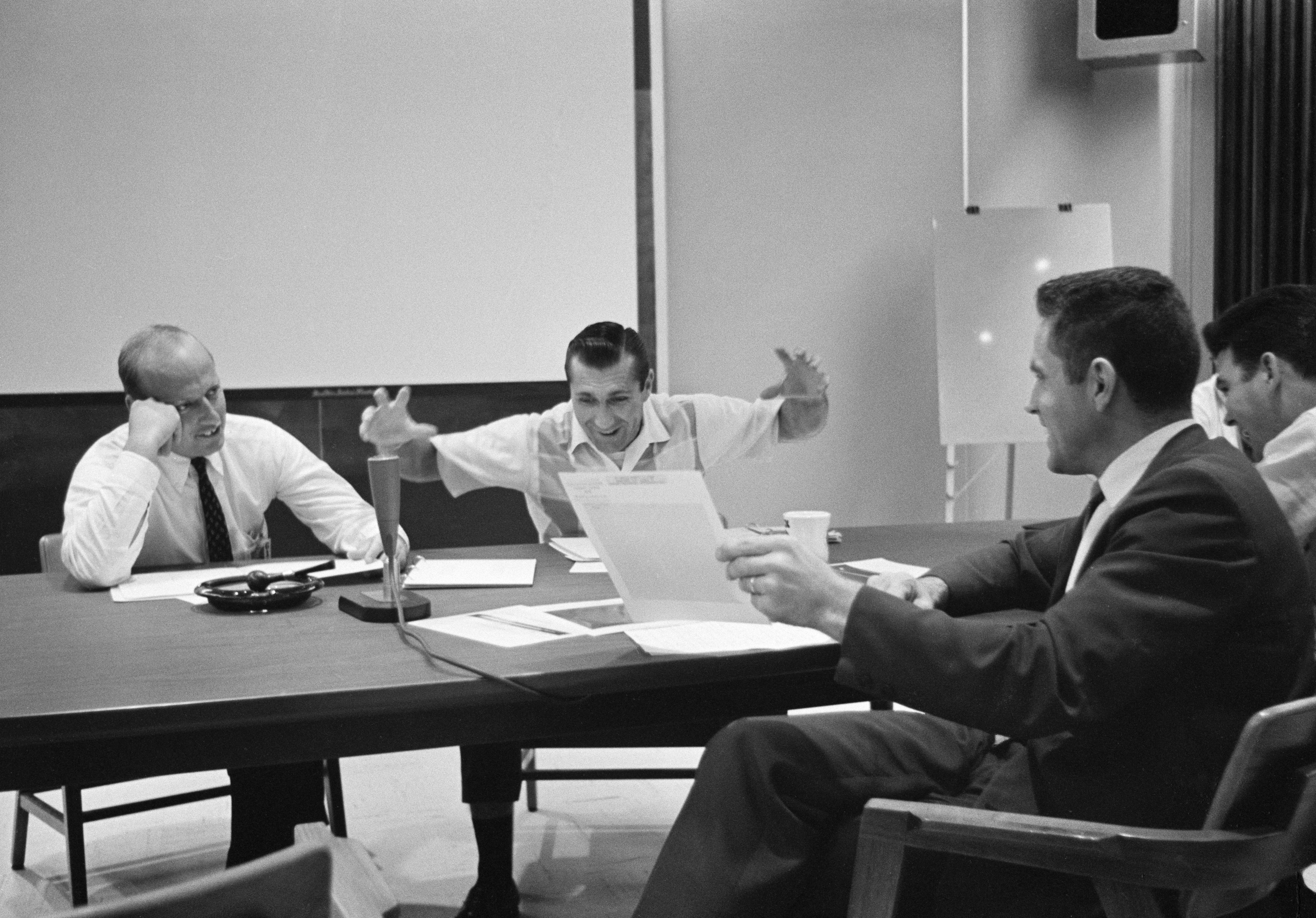 Discussing the S-13, Ultraviolet Astronomical Camera Experiment, during the postflight experiments briefing at the Manned Spacecraft Center, Houston, Texas, are (left to right) astronauts Charles Conrad Jr., Gemini-11 command pilot; Richard F. Gordon Jr., Gemini-11 pilot; and Dr. Karl Henize, Dearborn Observatory, Northwestern University.